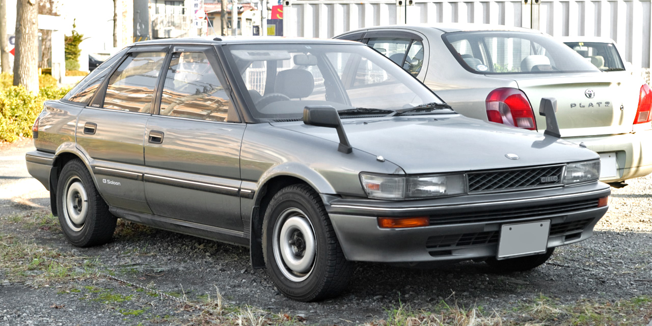 Toyota Sprinter Cielo 1.5 G-Saloon (AE91)